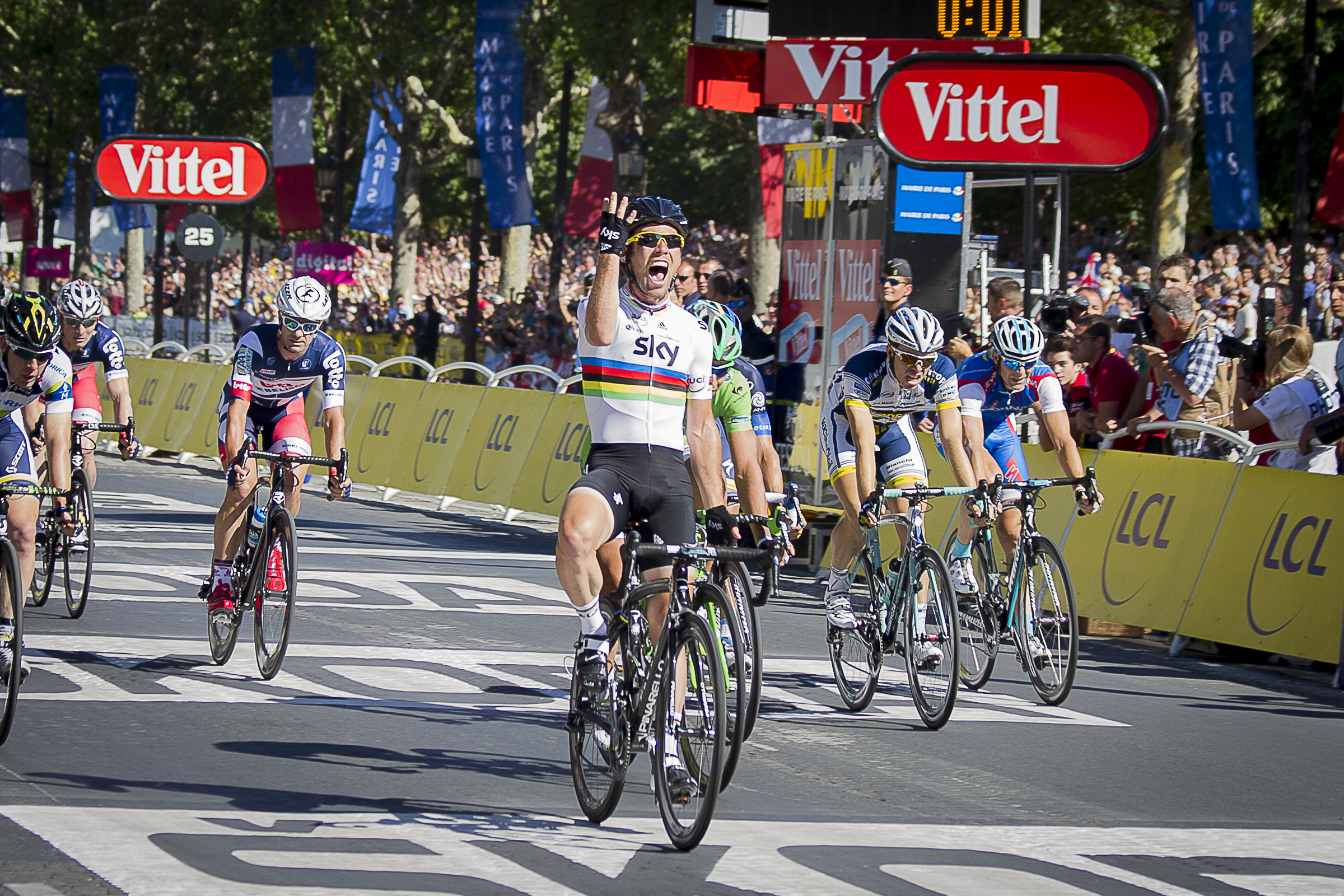 2012 Tour de France, Stage 20.